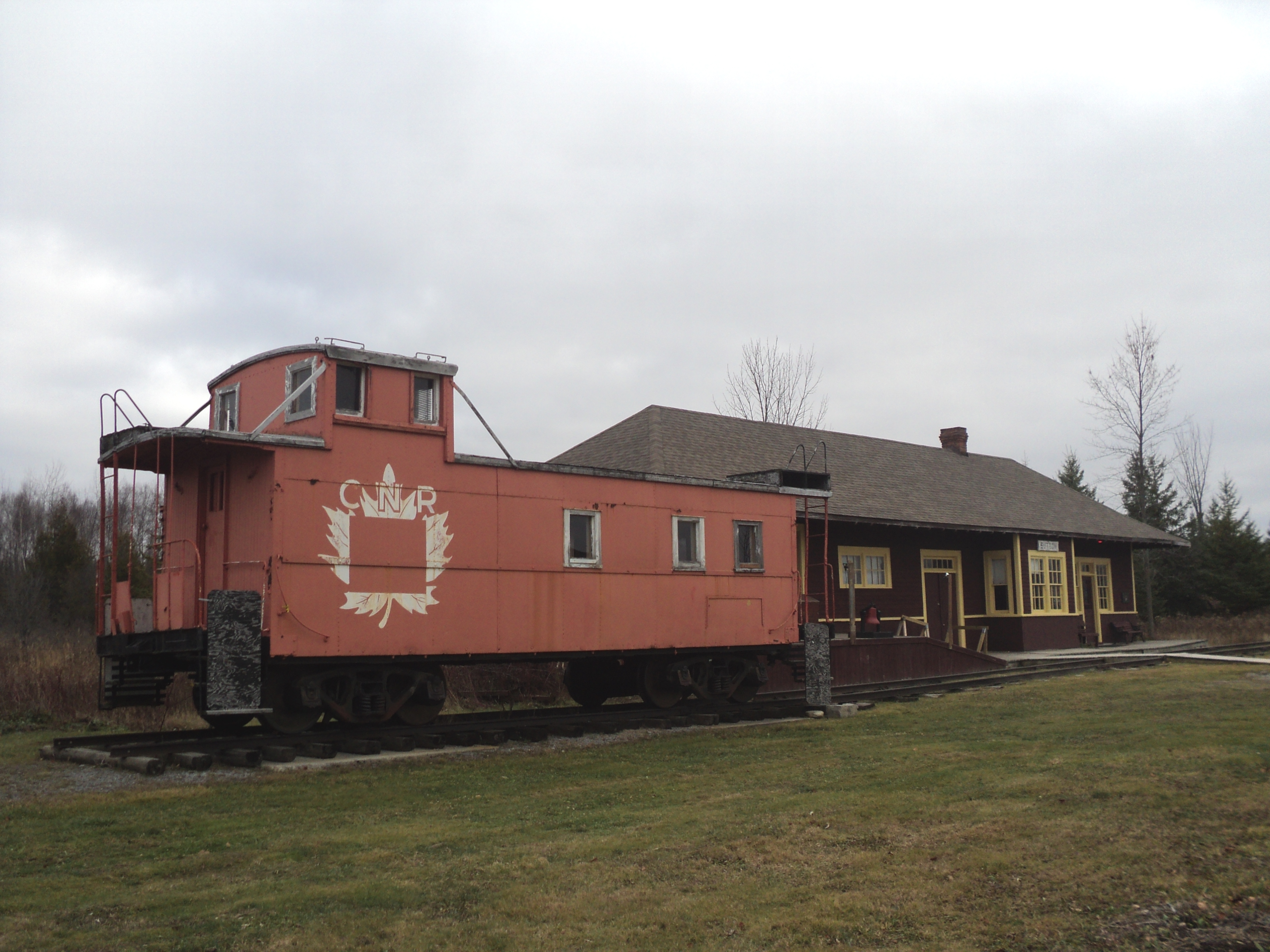 Preserved CNR caboose and the Sutton West station at the Georgina Pioneer Village.